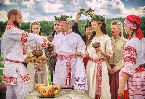 Rodnover wedding in Russia, by the Union of Slavic Rodnover Communities (Союз Славянских Общин Славянской Родной Веры).